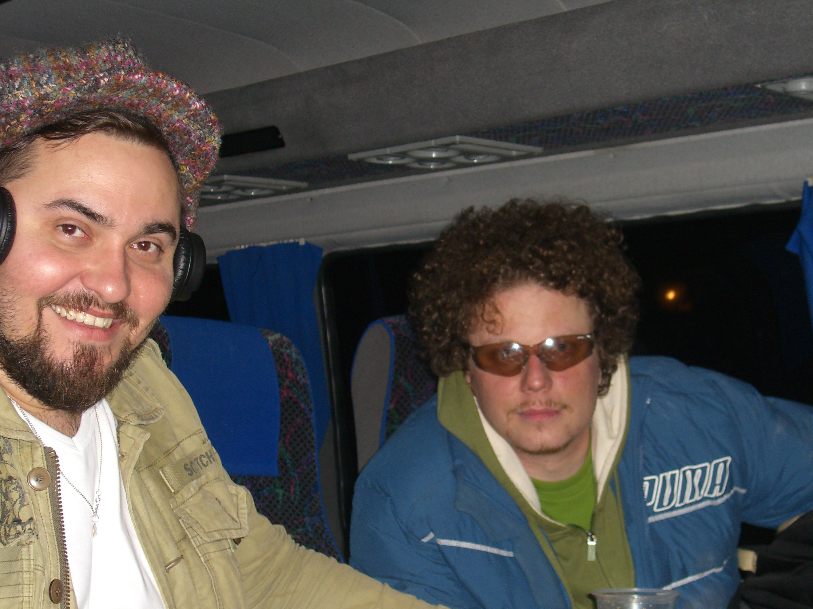 Maciek "Magilla Majcher" Majchrzak i Sidney Polak after T.Love's concert in Częstochowa